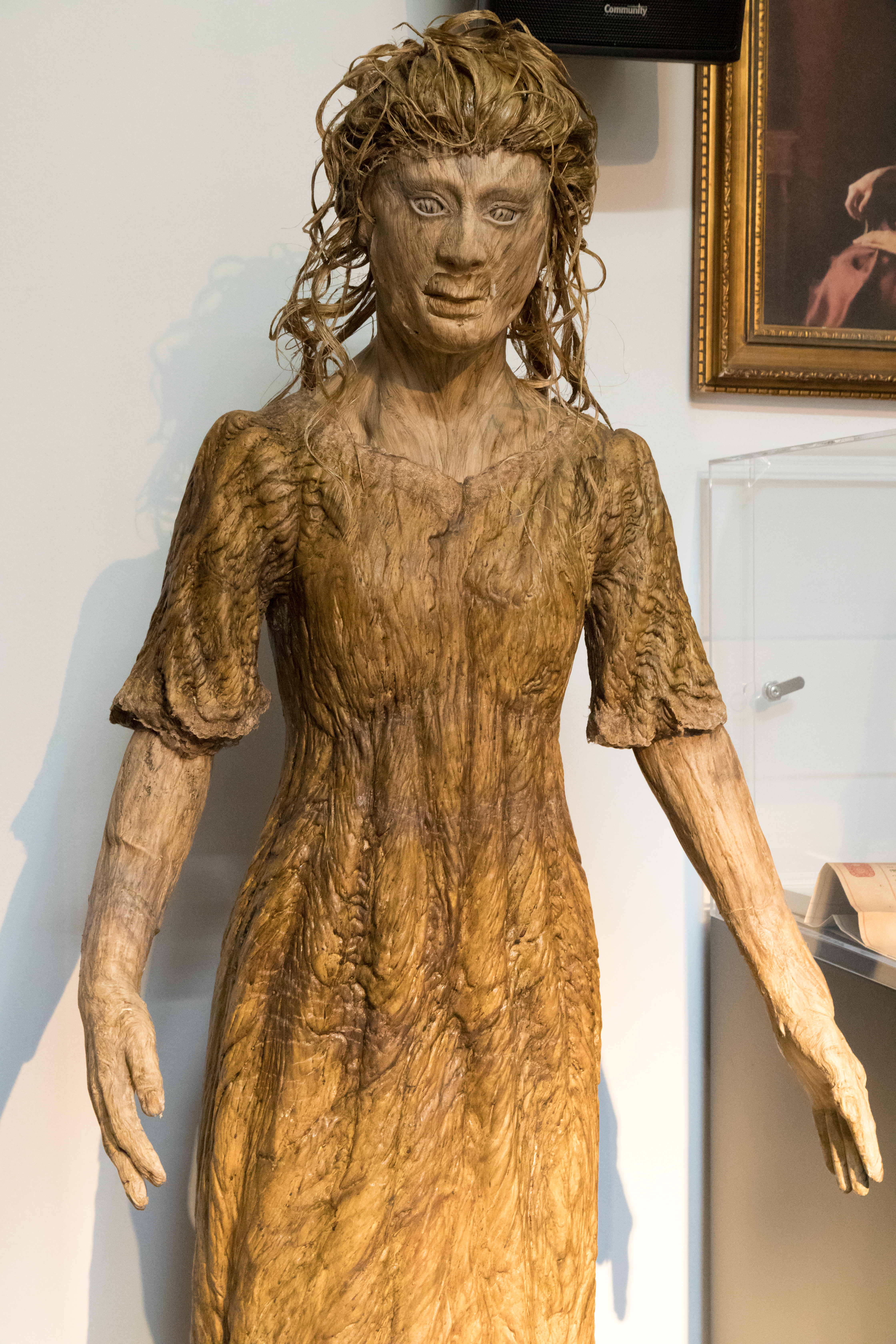 Click here to view my Doctor Who collection Click here to view my Doctor Who locations collection Doctor Who Experience